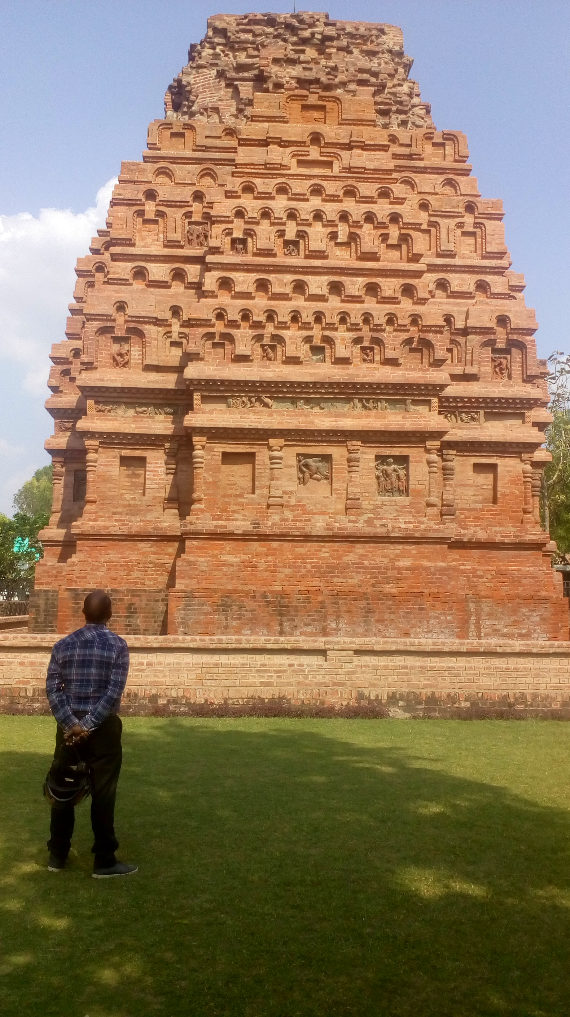 A tourist gazing at beautiful architecture of Bhitargaon temple.